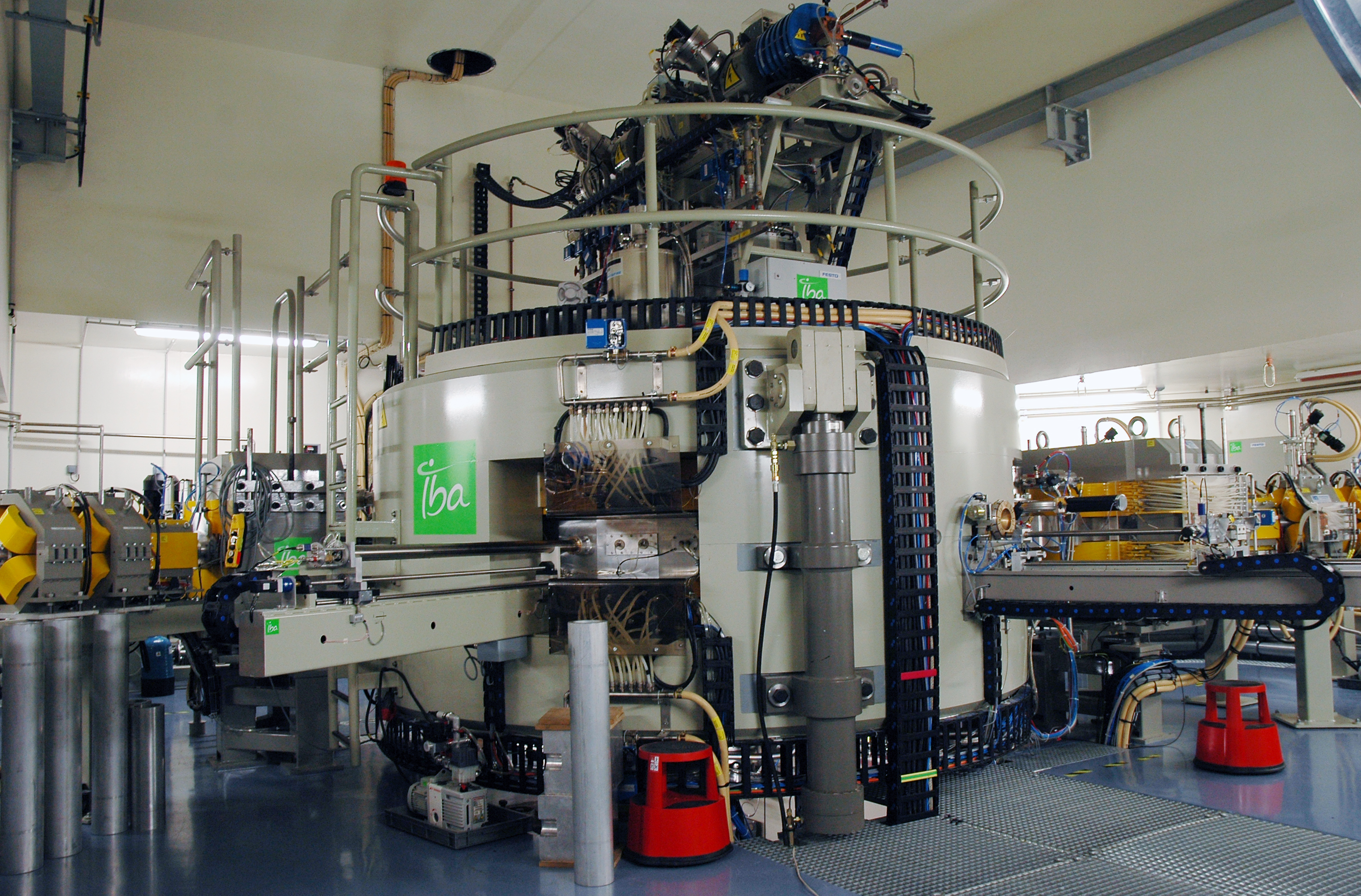 Cyclotron 70 MeV installed at the University of Nantes (France) in 2008. The cyclotron is designed for accelarating protons, deutons and alpha particles.